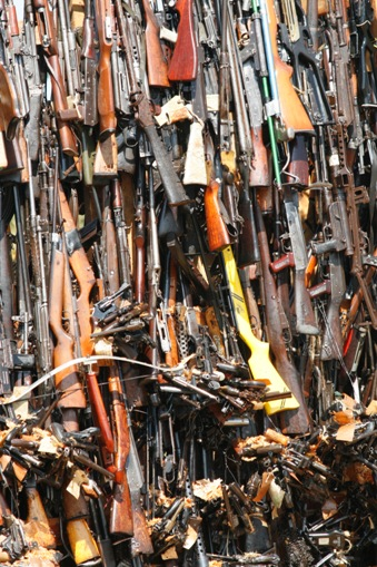 Pyre of smuggled weapons in Uhuru Gardens, Nairobi, Kenya. The original caption states, "A cache of more than 5,000 smuggled guns ready to be set ablaze at Uhuru Gardens (peace grounds) during the peace support effort between the warring countries surrounding Kenya and the communities living on the porous borders of Kenya. This was in an effort to bring peace and to end killings in the northern part of Kenya."